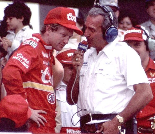 NASCAR champion Bill Elliott interviewed on Motor Racing Network by another former champion Ned Jarrett. Photo by Ted Van Pelt